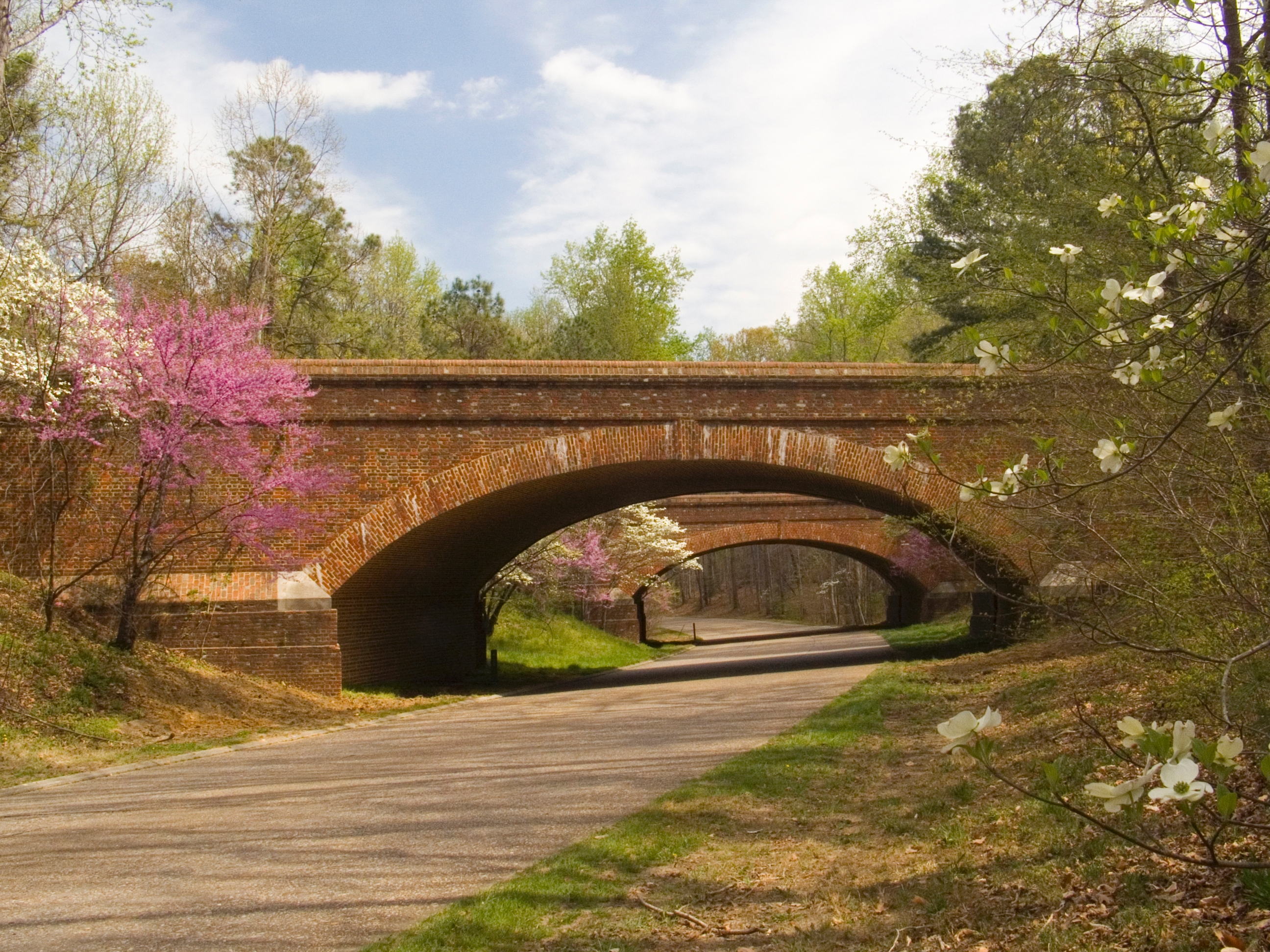 Colonial Parkway with springtime blossoms